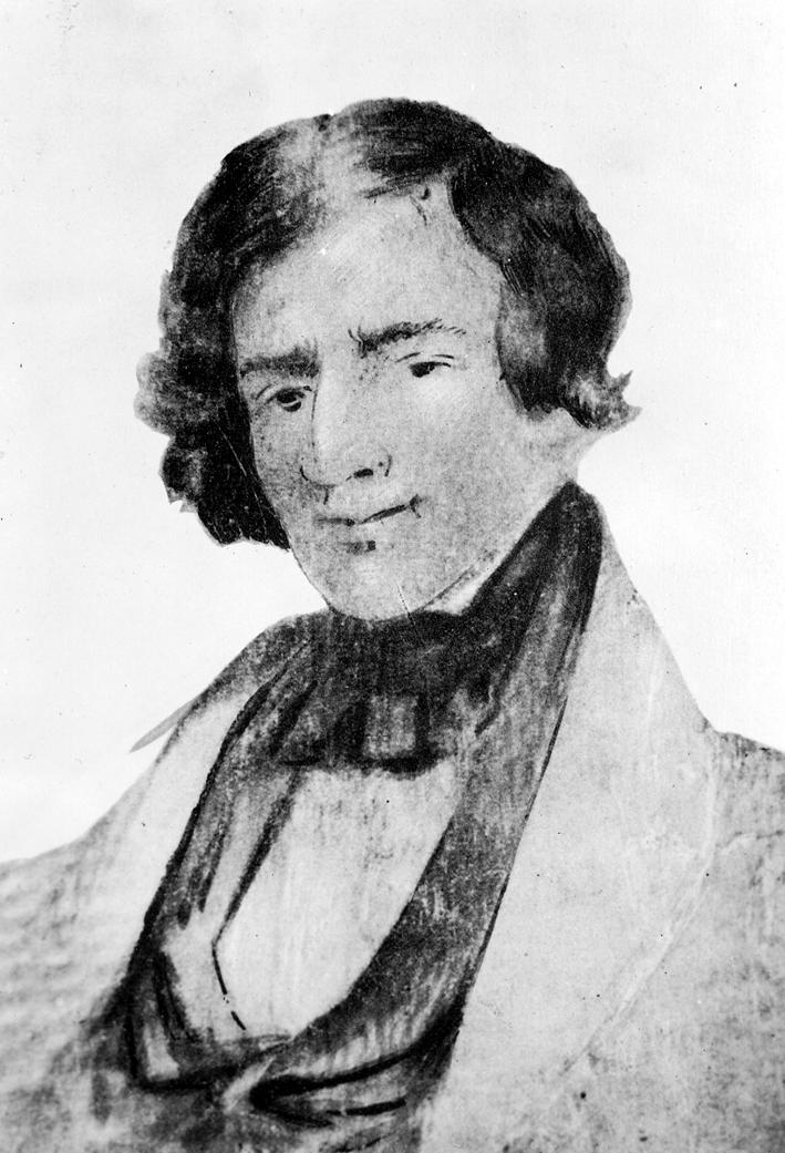 Drawing of Jedediah Smith (1799–1831), created around 1835 after his death by a friend from memory. It is the only contemporary image of Smith.